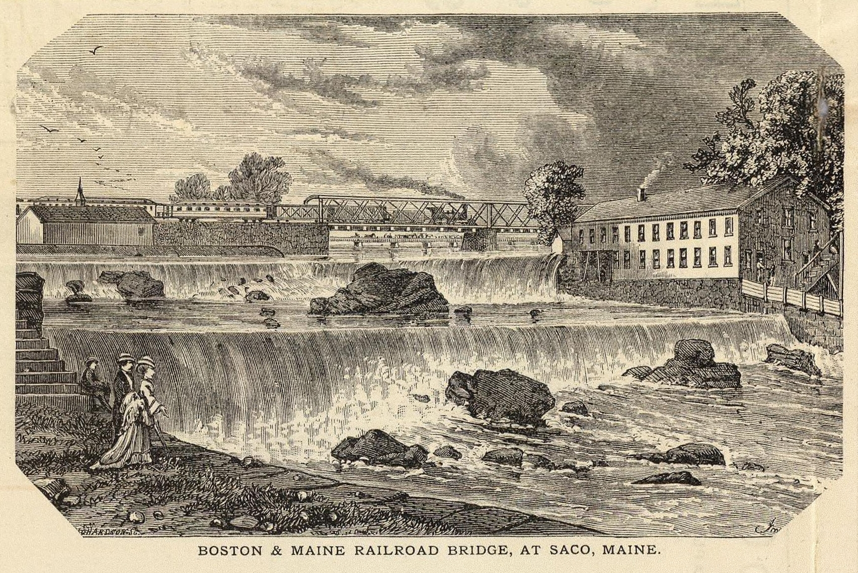 "Boston & Maine Railroad Bridge at Saco" — image cropped from an 1879 map of the B&M system.